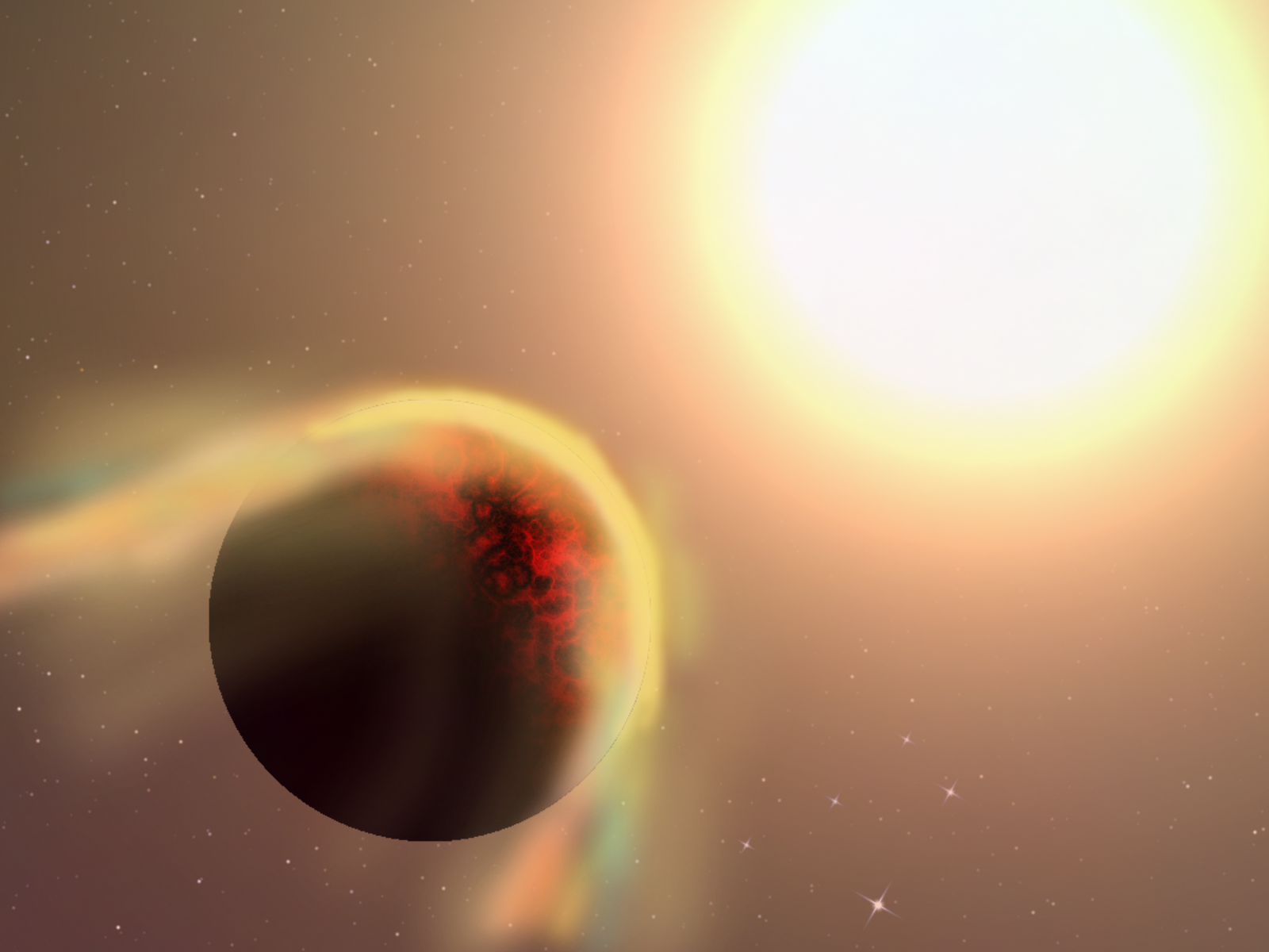 Artist's impression of Keppler-70b